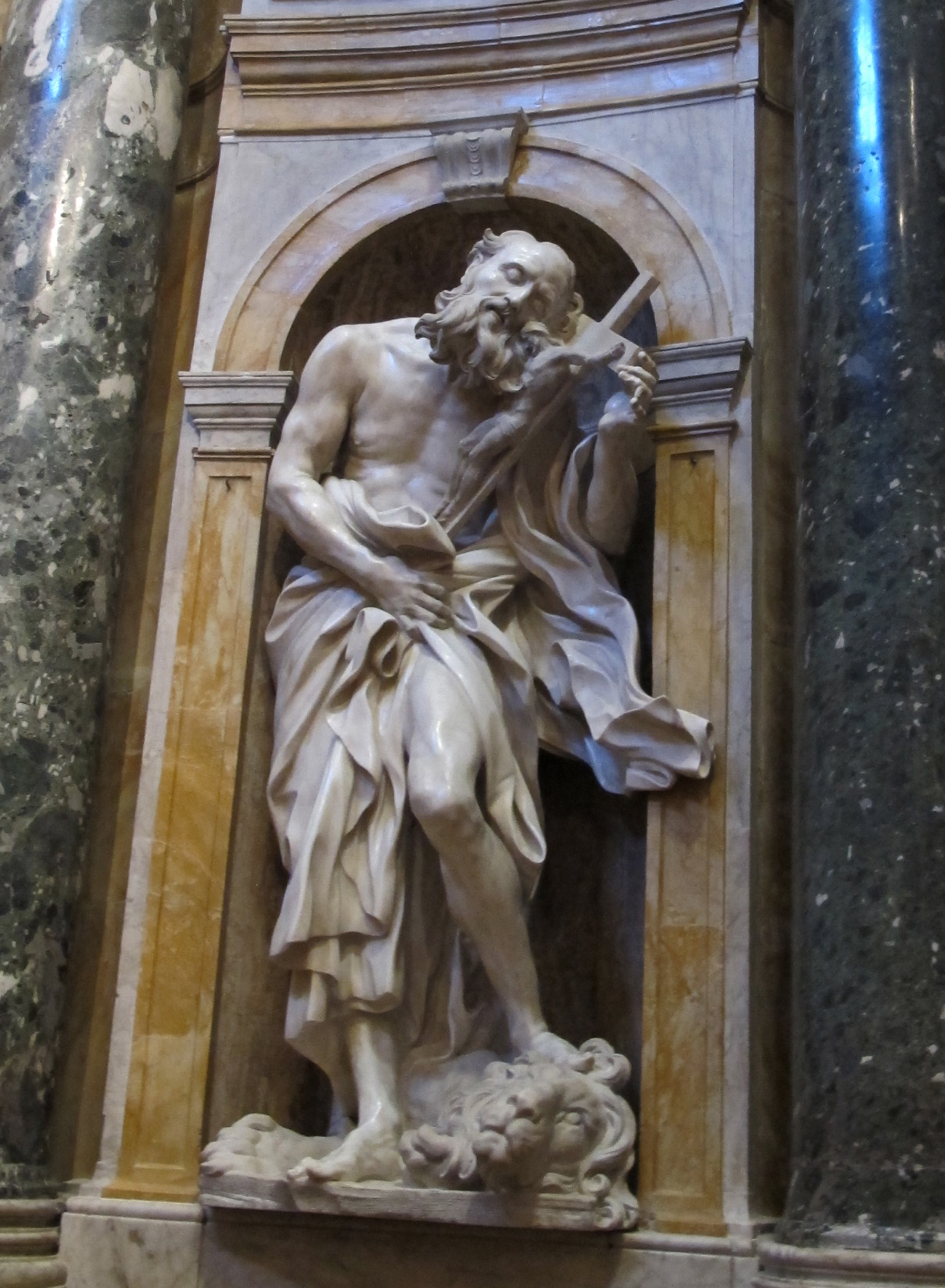 Saint Jerome by Gian Lorenzo Bernini